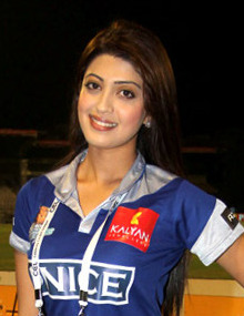 Pranitha at CCL 3's Chennai Rhinos Vs Karnataka Bulldozers match